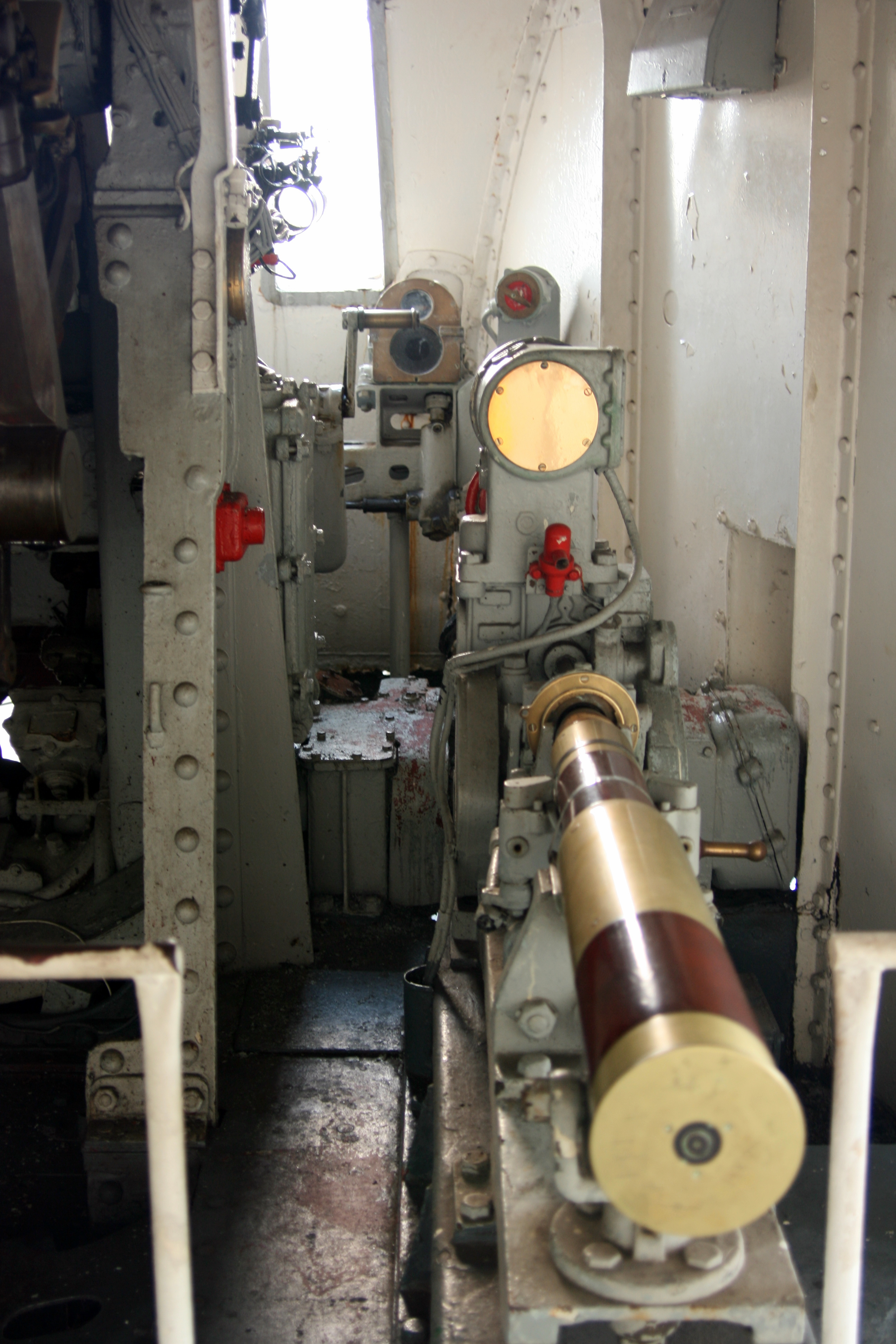 4 inch quick firing MKXVI guns on HMS Belfast. Fuze is here adjusted before loading.